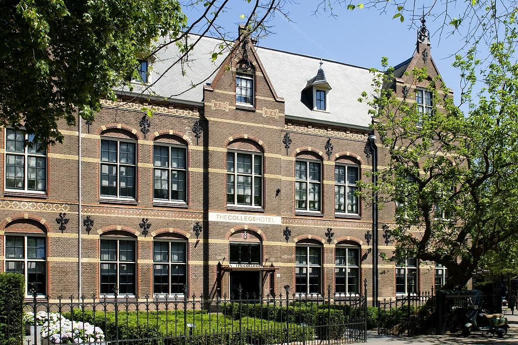 front side of The College Hotel Amsterdam